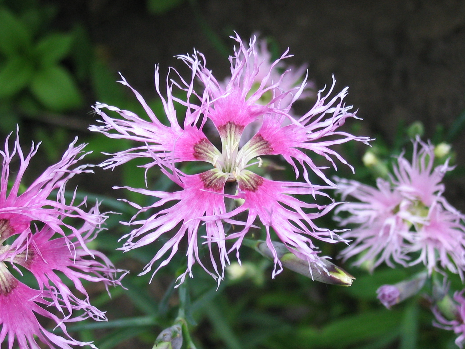 Сarnation rose